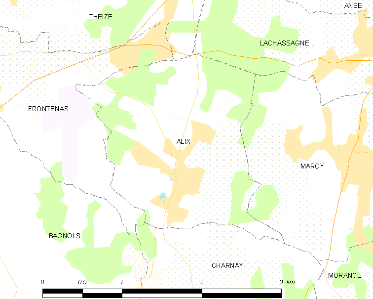 Map of French municipality